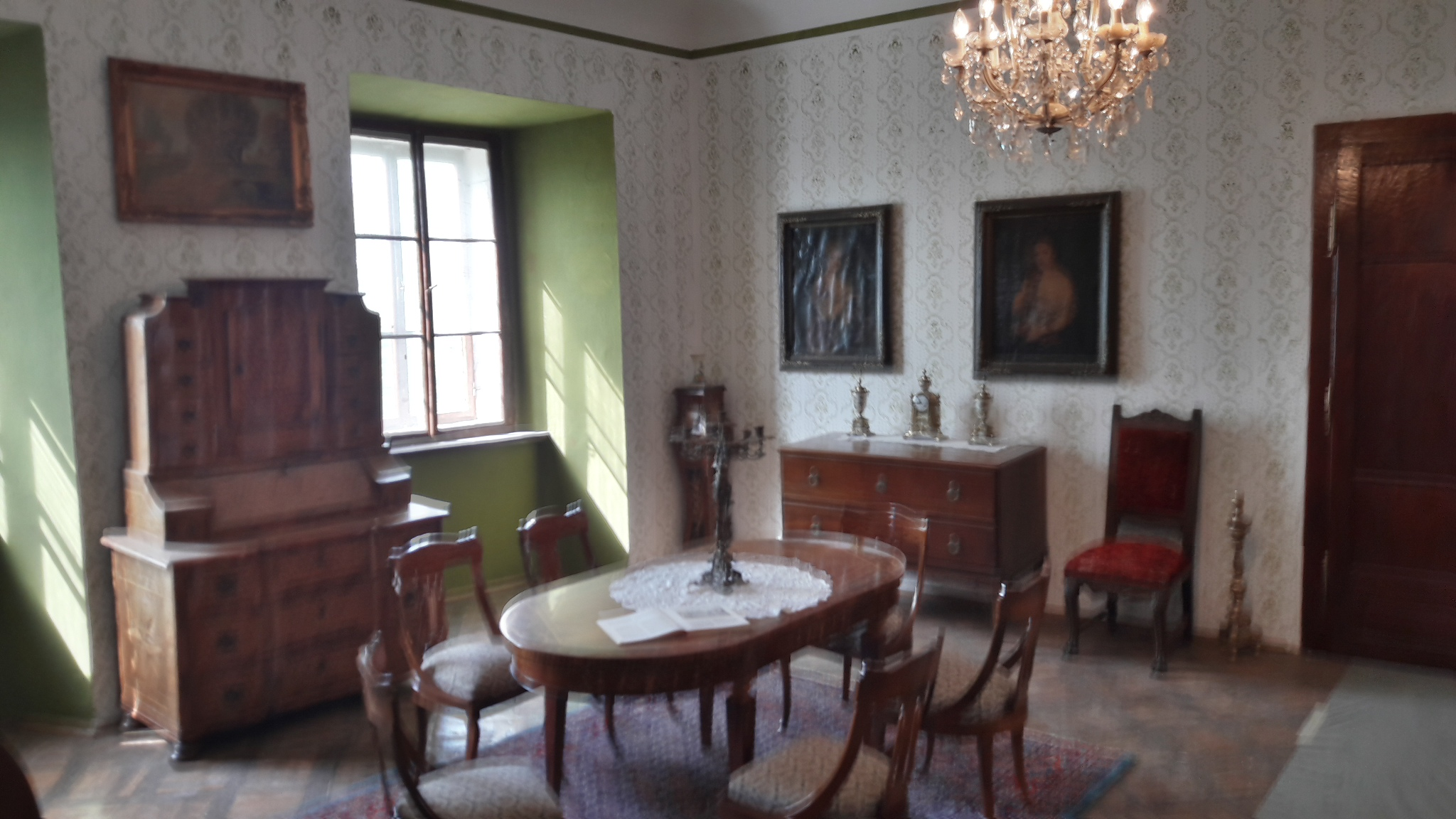 Notranjost